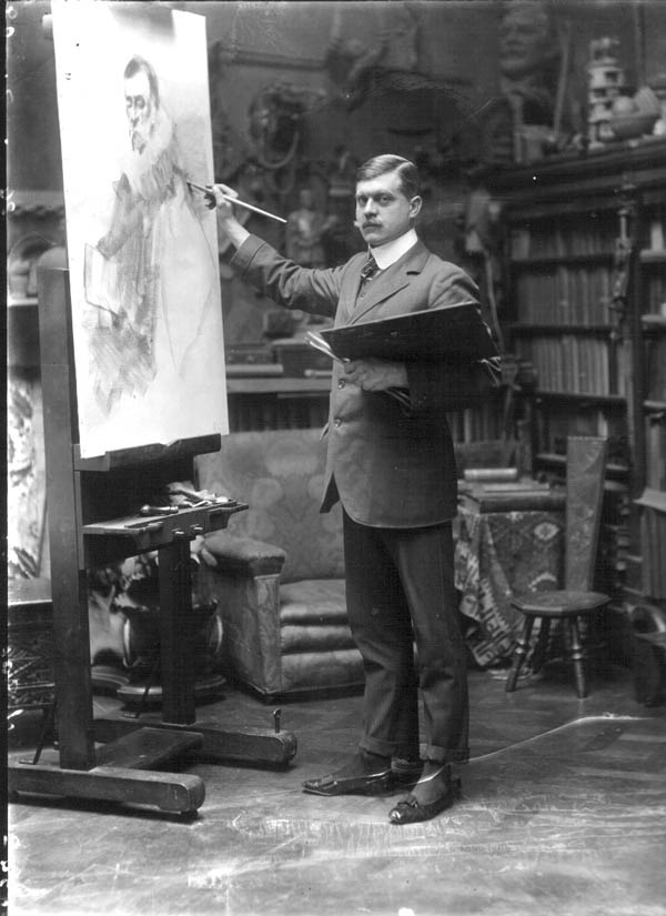 John Hassall photographed in his studio on 24 July 1909